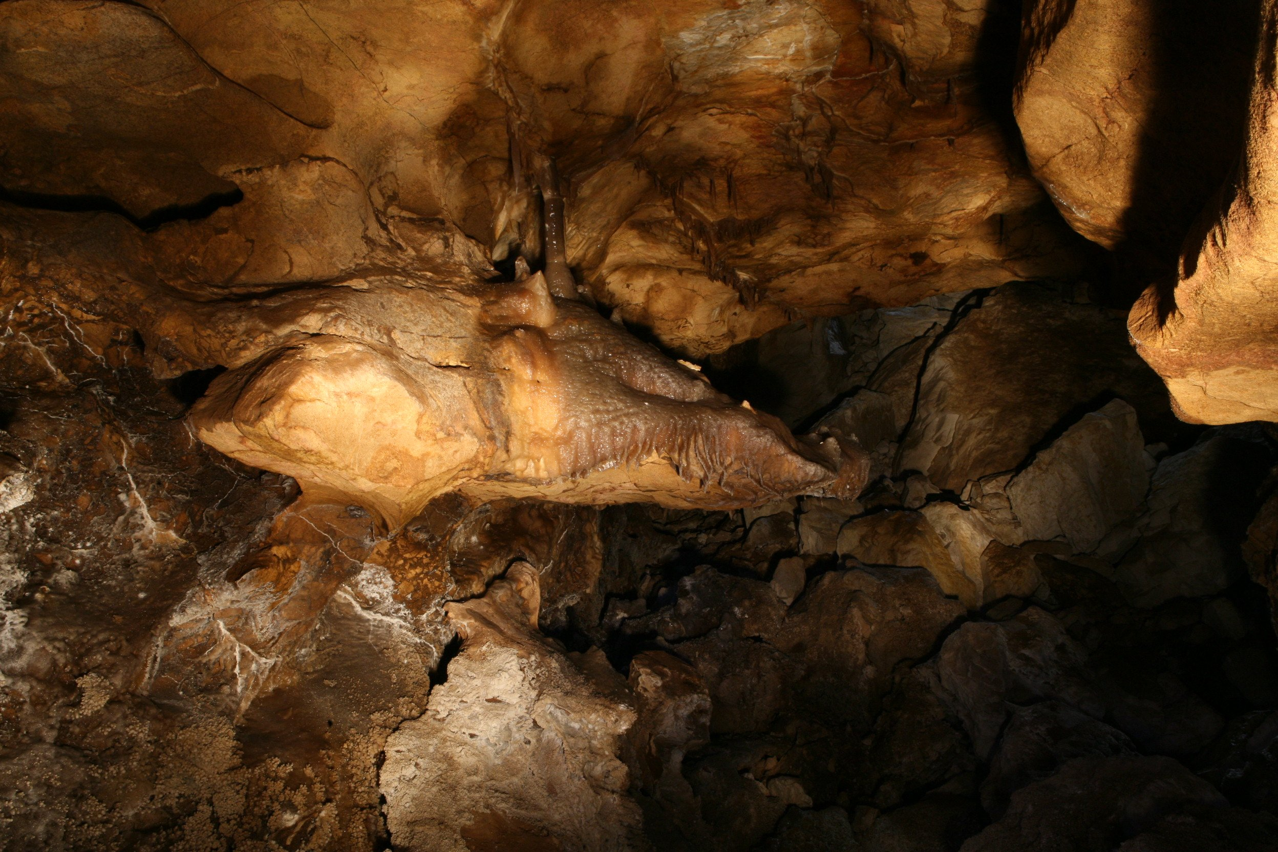 Stalactite Reptilles in the Claw's Cave